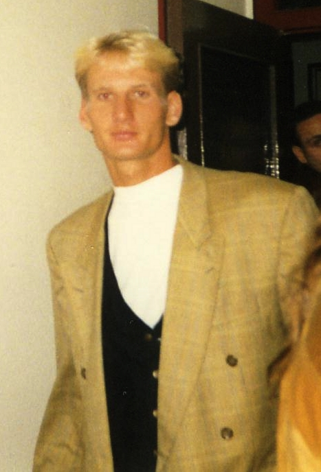 the german ex-soccer player Carsten Pröpper (season 1992/93)